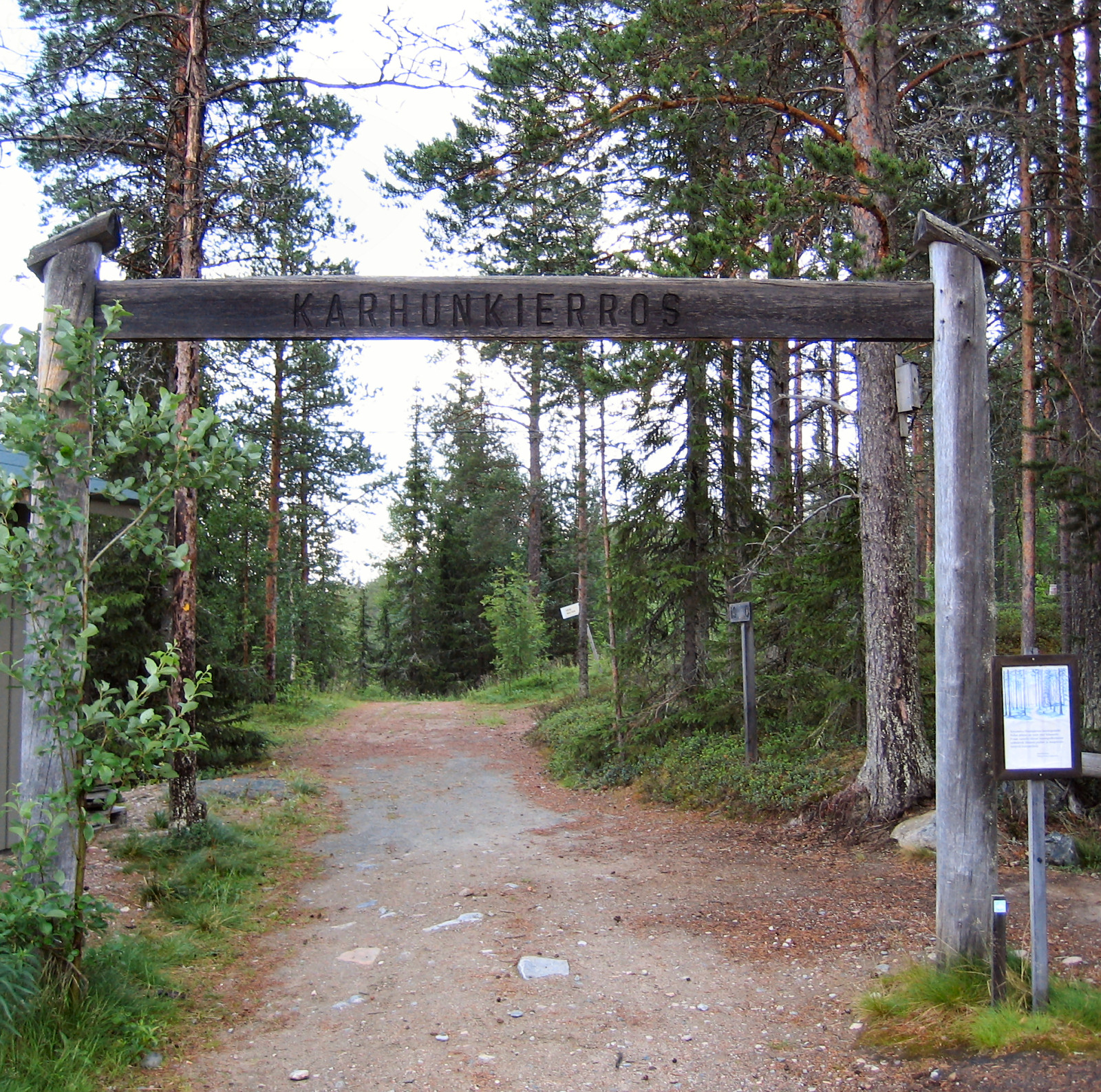 Starting point of the most popular hiking path, Karhunkierros. Located in Salla, Finland (at the Hautajärven Luontotalo).